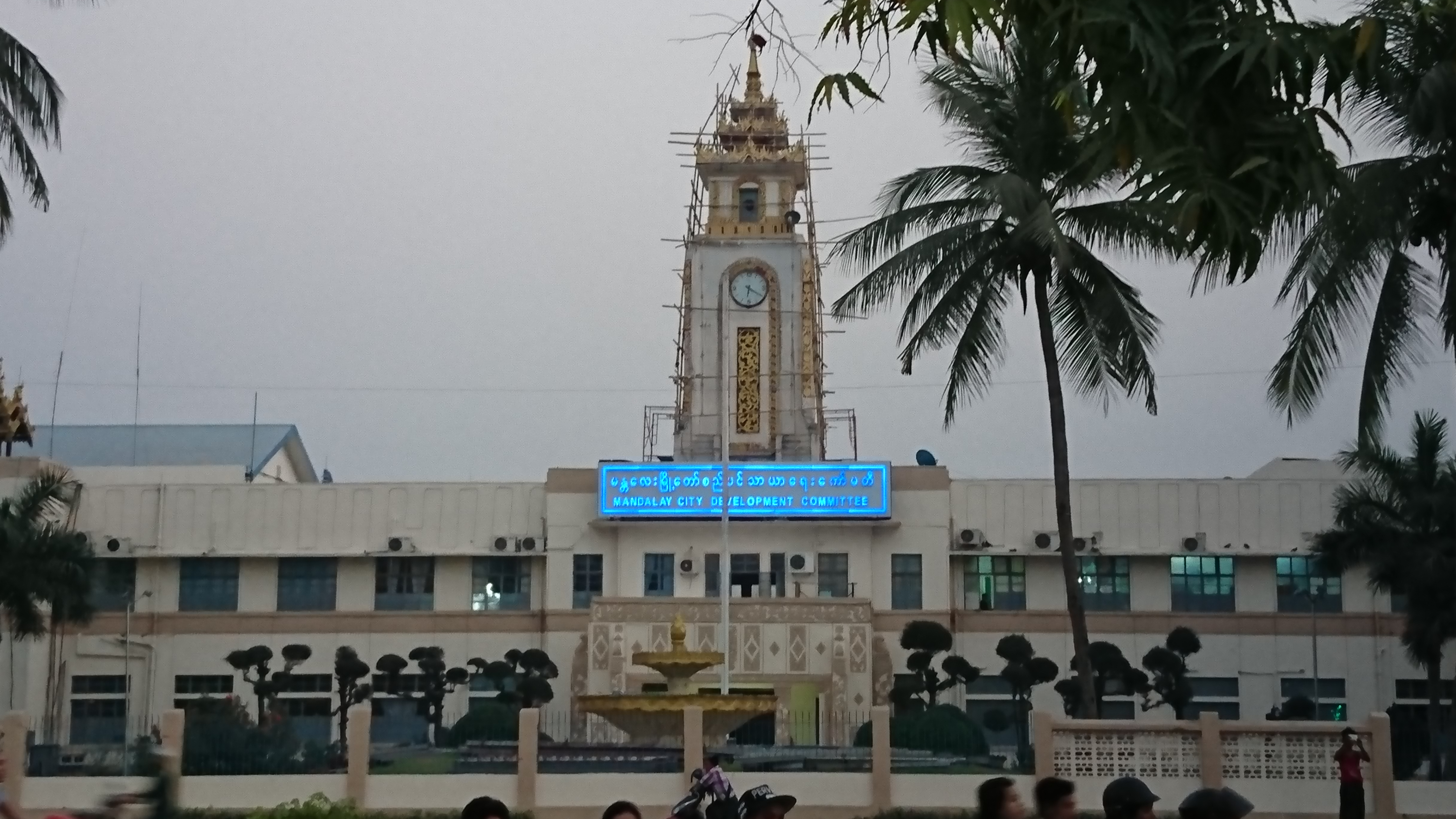 Office of the Mandalay City Development Committee မြန်မာဘာသာ: မန္တလေးမြို့တော် စည်ပင်သာယာရေးကော်မတီ ရုံးအဆောက်အအုံ